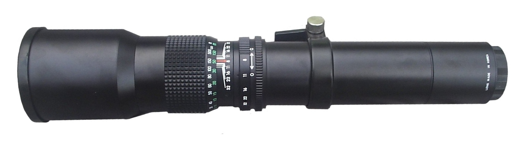 Samyang 500mm f/8.0 Telephoto lens with extension tube